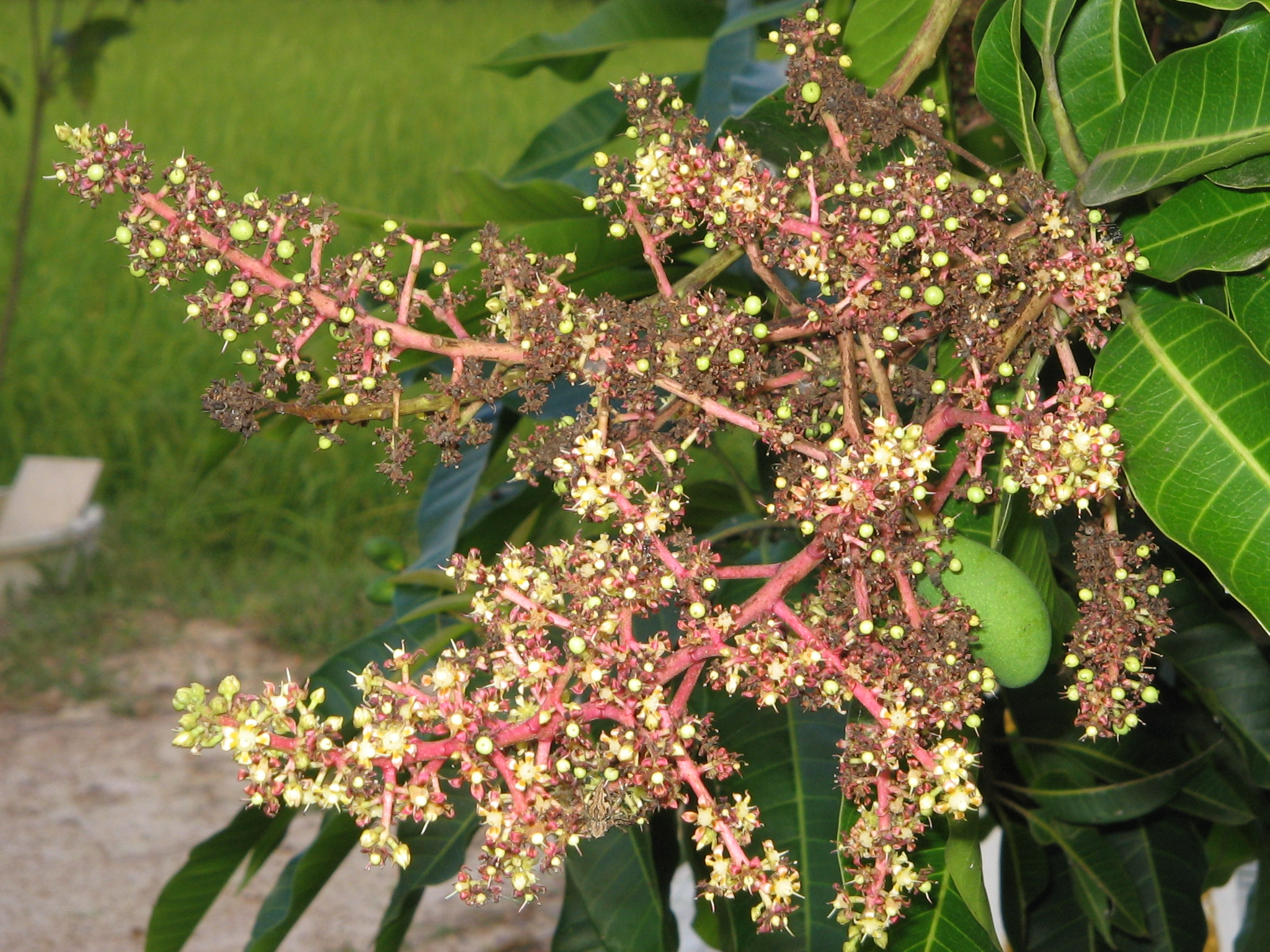 Mangifera indica flowers